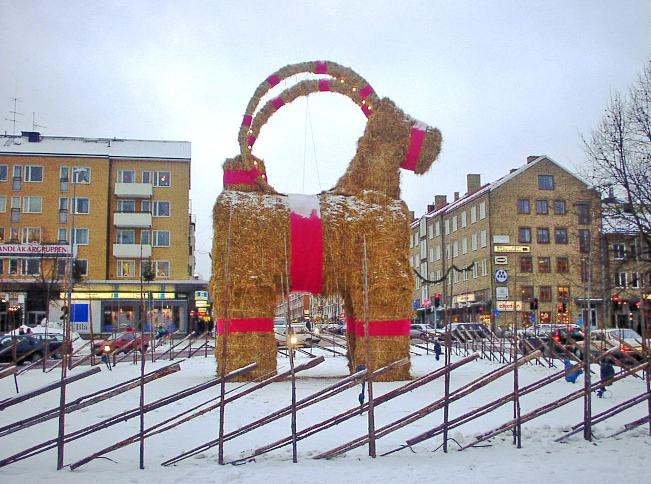 The Gävle goat 2003.